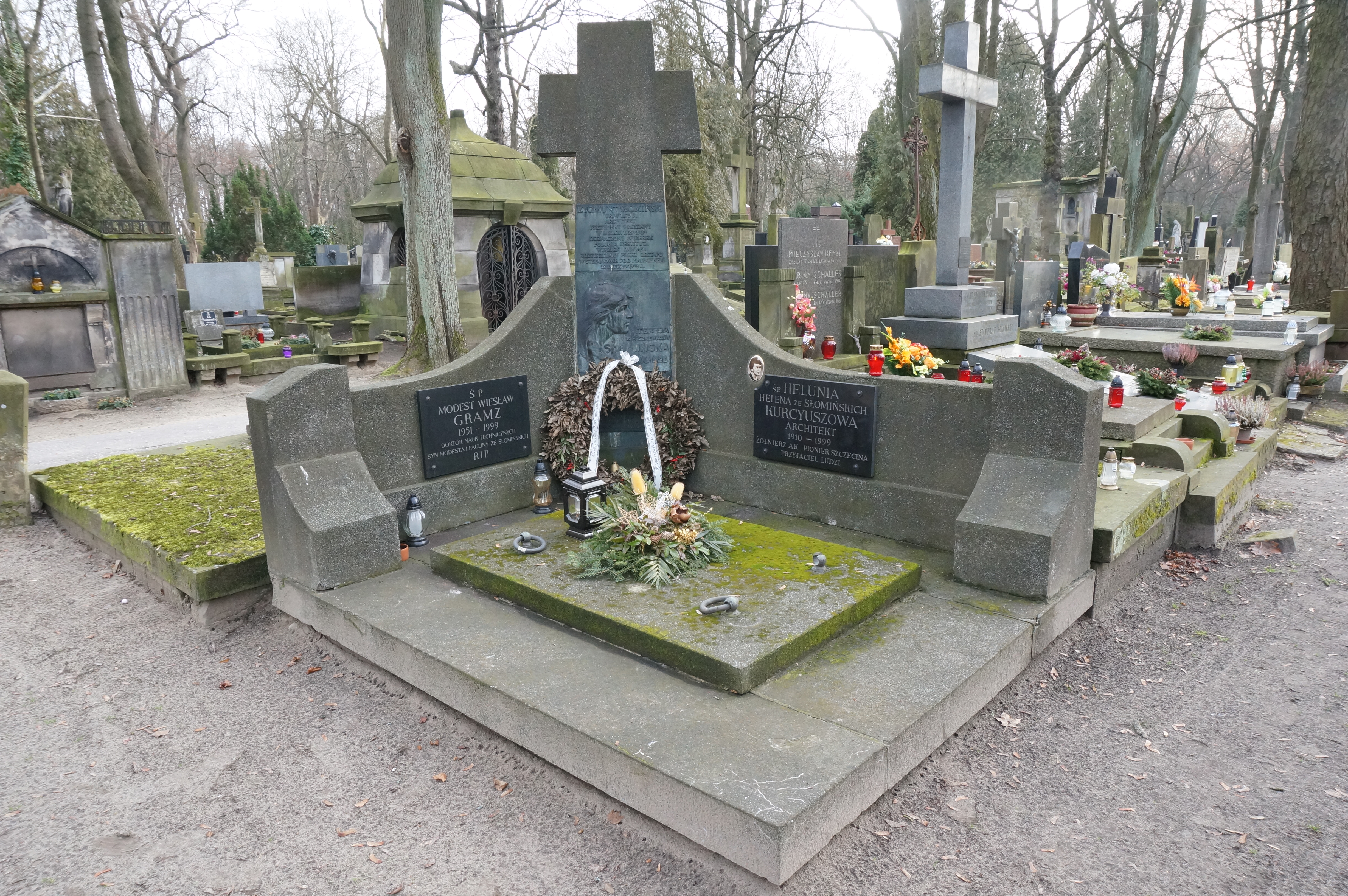 The grave of Zygmunt Słomiński at the Powązki Cemetery (section 201, row 2, grave 1, 2)